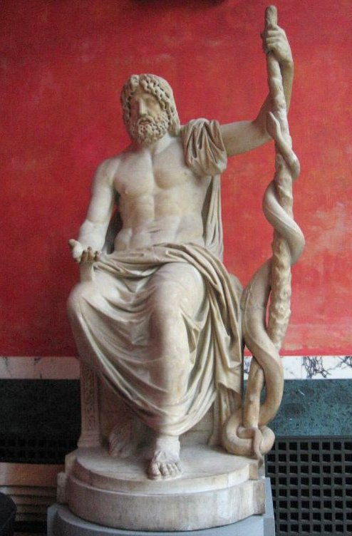 A statue of Asclepius. The Glypotek, Copenhagen.